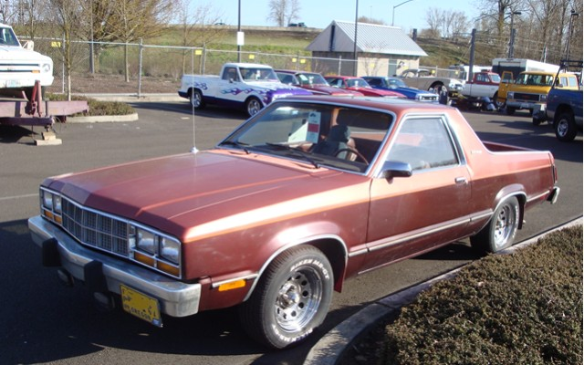 Ford Durango, circa 1980 model.